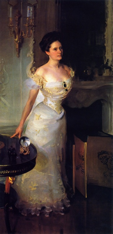 Mrs Larz Anderson (aka Isabel Weld Perkins) by Cecilia Beaux